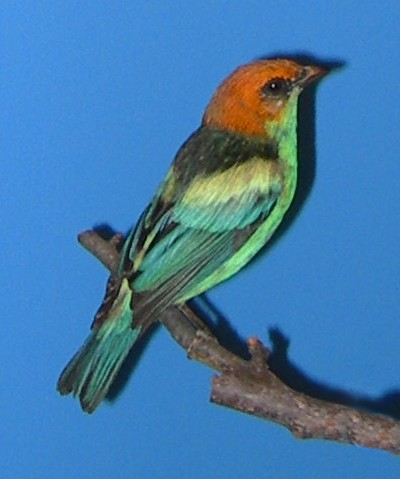 Mounted Black-backed Tanager (Tangara peruviana), at the Muséum d'Histoire naturelle de Genève.